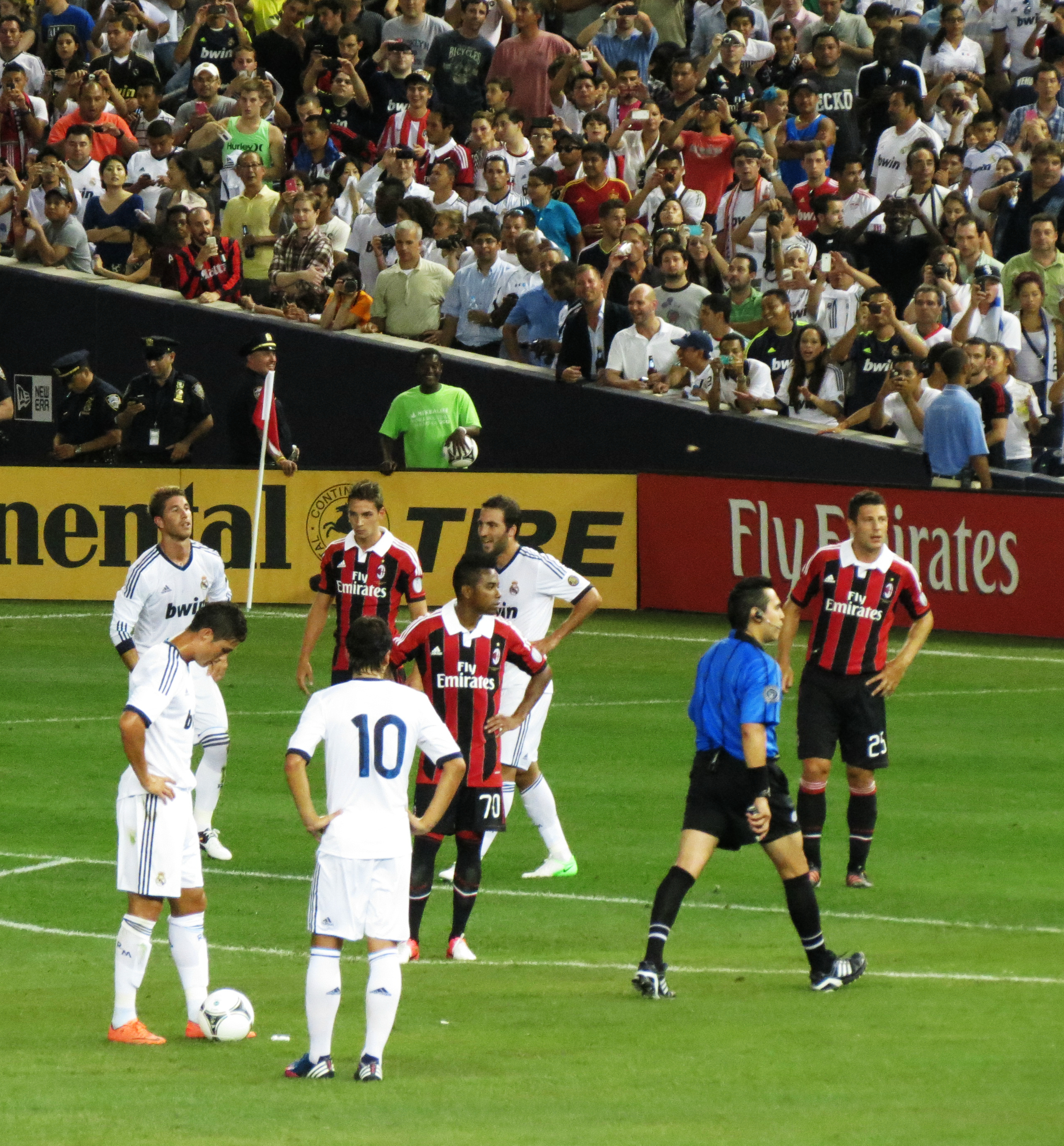 Cristiano Ronaldo (looking down) and Mesut Ozil of Real Madrid set up for a free kick against AC Milan.